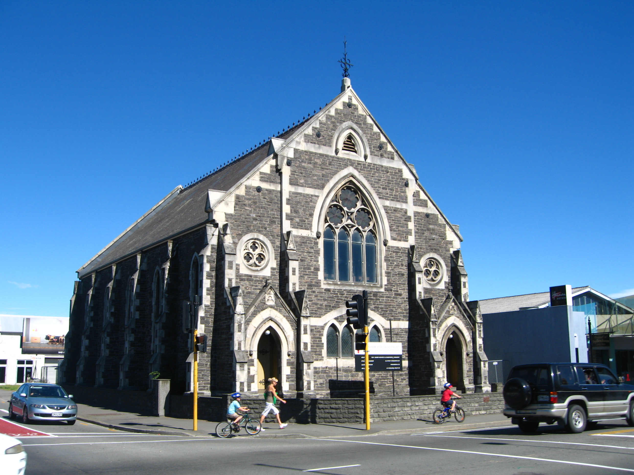 The Sydenham Heritage Church, corner Colombo and Brougham Streets, Christchurch, New Zealand